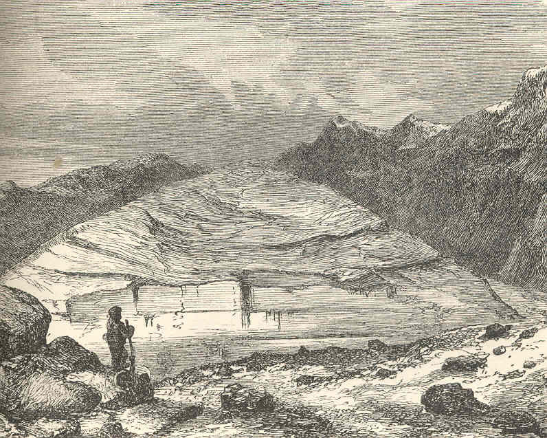 Hühnerbjerg - Wollaston Foreland (Huhnerberg Glacier Subject: Glaciers--Greenland, Huhnerberg Glacier (Greenland) Geographic Subject: Greenland--Huhnerberg Glacier Tag: Polar